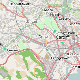 Map of Cardiff